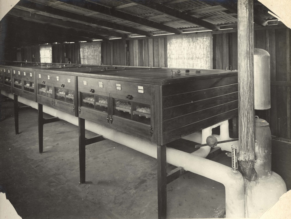 Title: Grantham Soldiers' Settlement Estate - Grantham Stud Poultry Farm, incubator house Dated: 31/12/1921 Digital ID: 8095_a016_a016000026 Rights: We'd love to hear from you if you use our photos/documents. Many other photos in our collection are available to view and browse on our website using Photo Investigator.